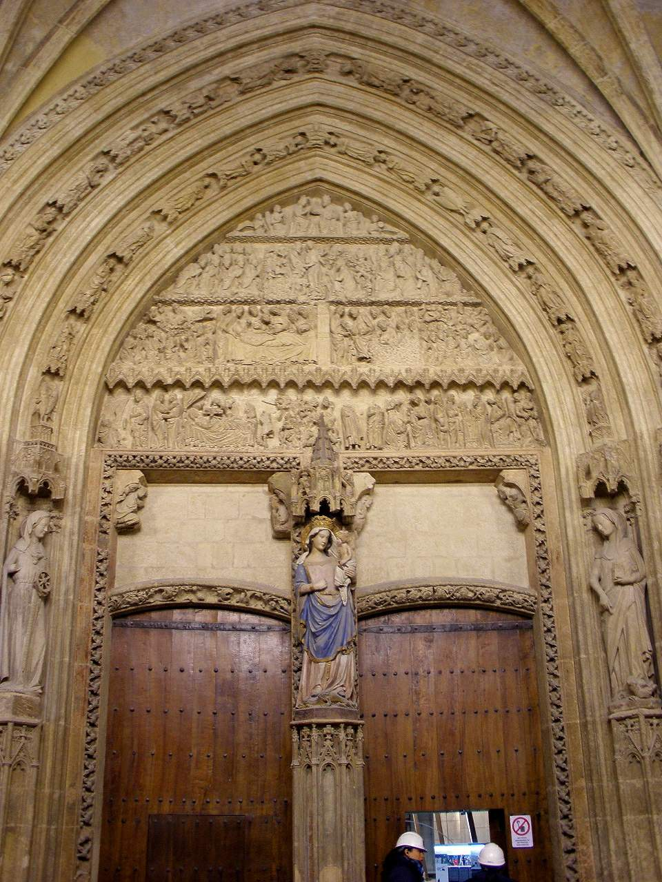 Portada central del pórtico de la Catedral de Santa María (Catedral Vieja) de Vitoria-Gasteiz